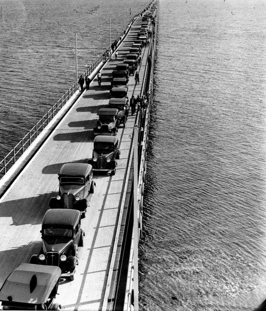 Photographer: unidentified Location: Redcliffe, Brisbane, Queensland Description: Long line of cars, all travelling in the one direction on the old timber Hornibrook Highway Bridge which linked Brisbane to Redcliffe, in 1935, the year the bridge was opened. A number of pedestrians and cyclists are also using the bridge. View this page at the State Library of Queensland: Information about State Library of Queensland’s collection